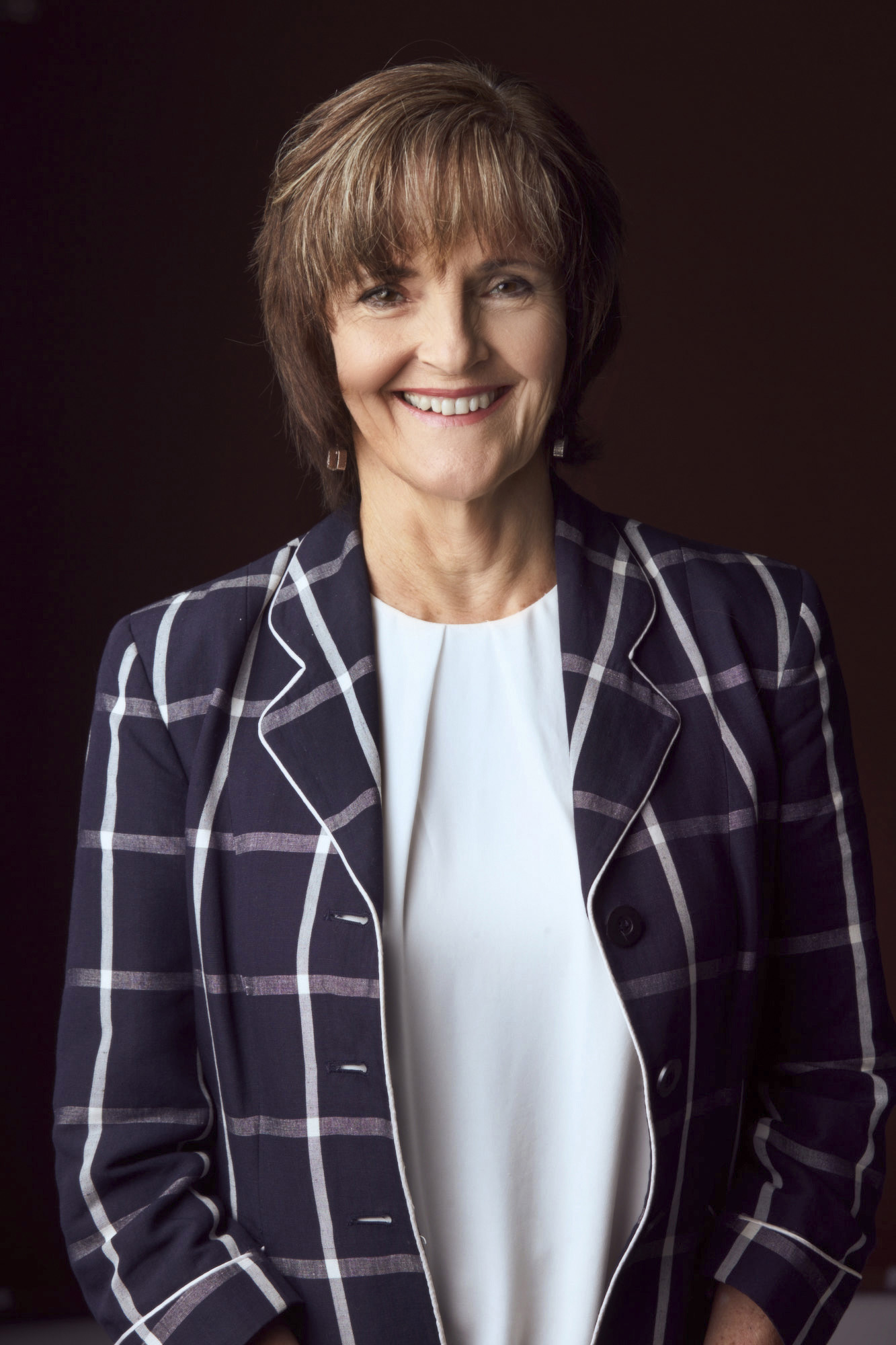 A photo taken by Mike Rooke of North & South editor Virginia Larson.